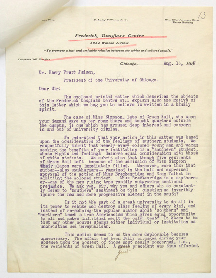 Scanned letter from Cecelia Woolley to Harry Pratt Judson, writing about the relocation of Georgiana Simpson off of the University of Chicago campus, with reply, August 16, 1907 and August 29, 1907.